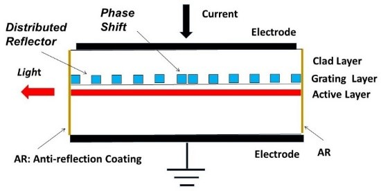 Fig.5 Schematic structure of Phase-Shift Distribute Feedback laser, in October 1983 ~Thermo-tunable Dynamic Singlr Mode Laser ~.